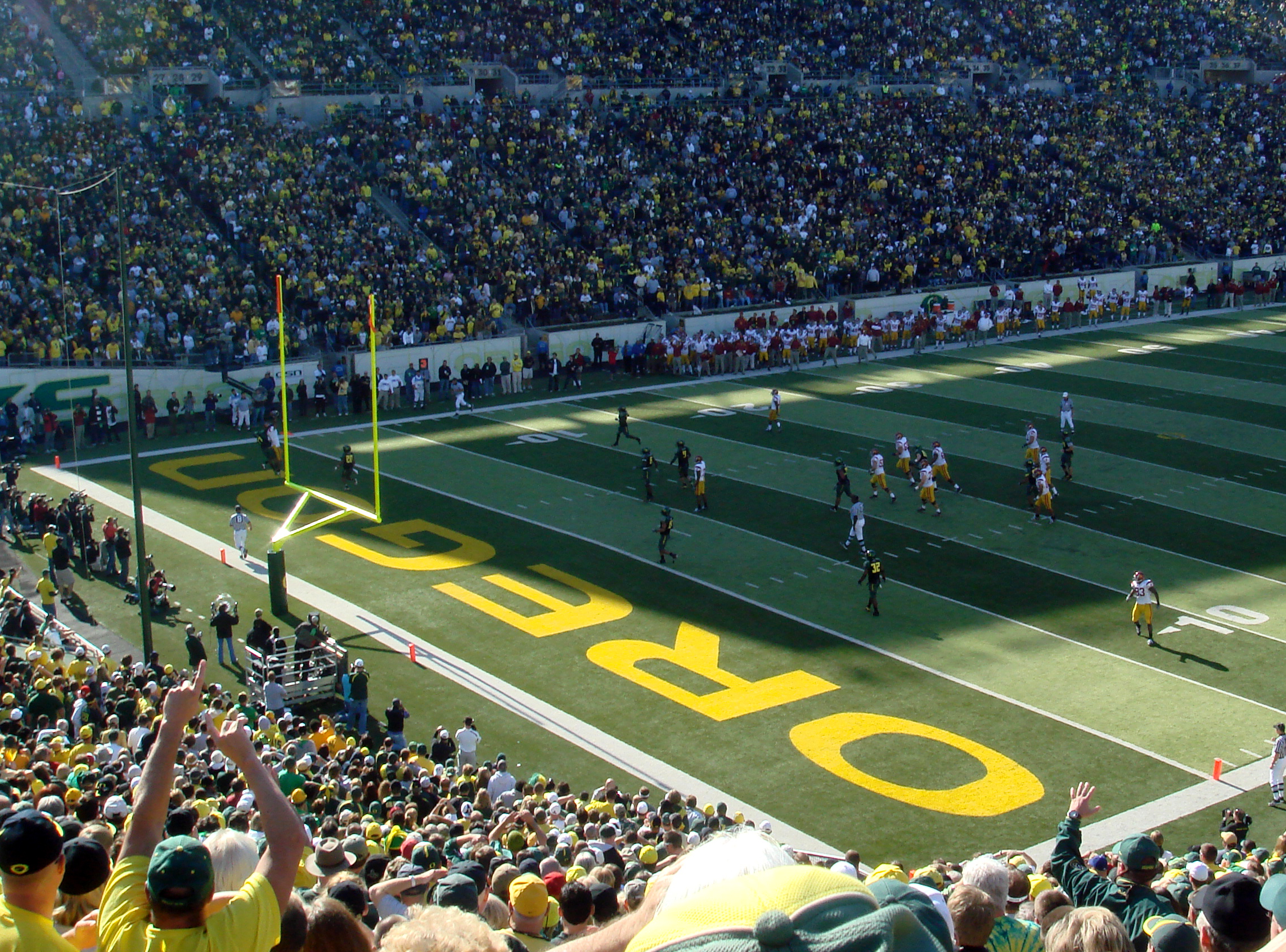 Autzen Stadium, home of theUniversity of Oregon Ducks football, during the 2007 season game between the USC Trojans and the Ducks; it was the first time two top-10 teams had played at Autzen in its 41-year history and broke the stadium attendance record with 59,277. The Ducks, slightly favored, won the game: 24–17.